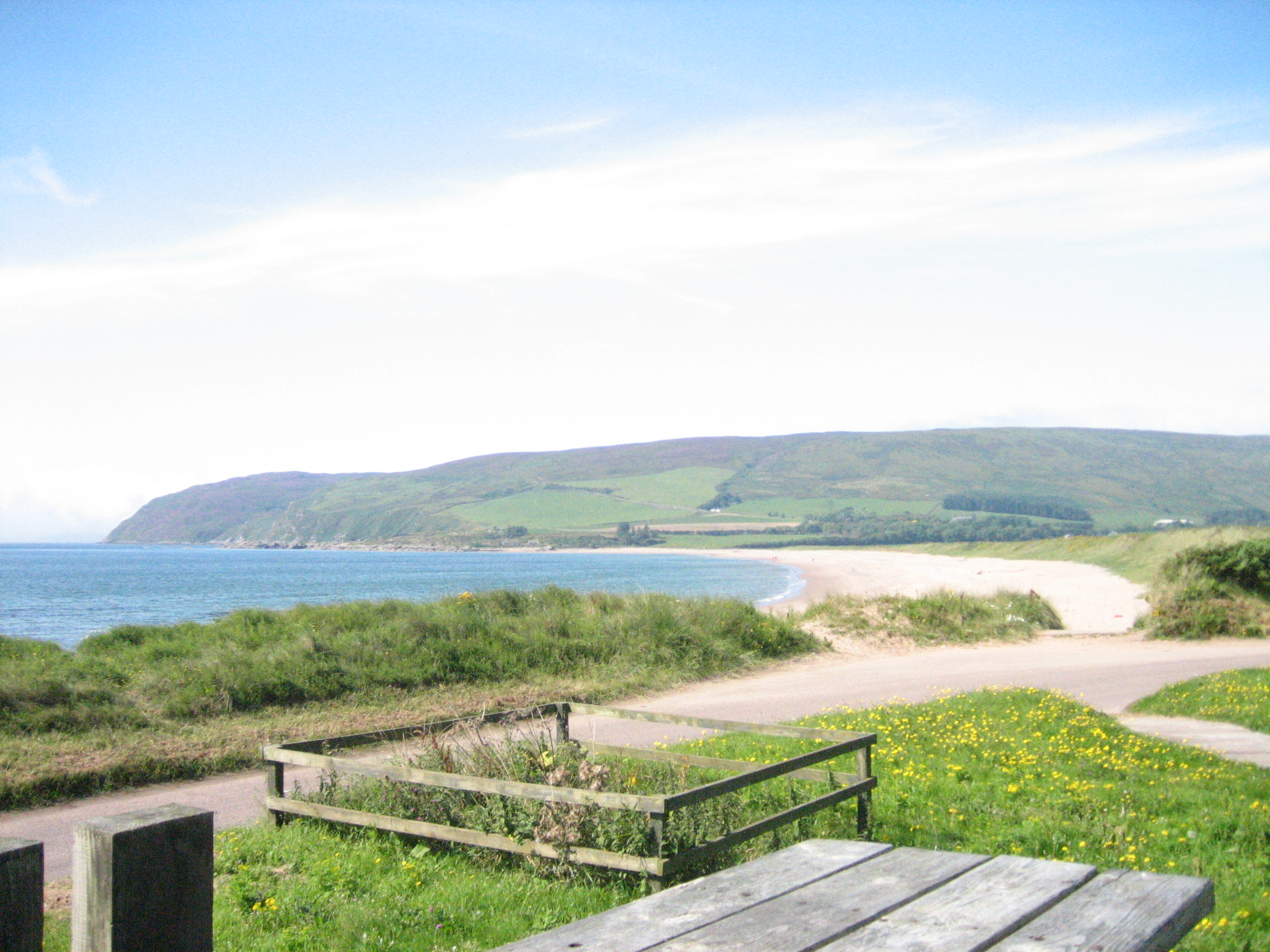 Beach at the south coast of Kintyre, Scotland